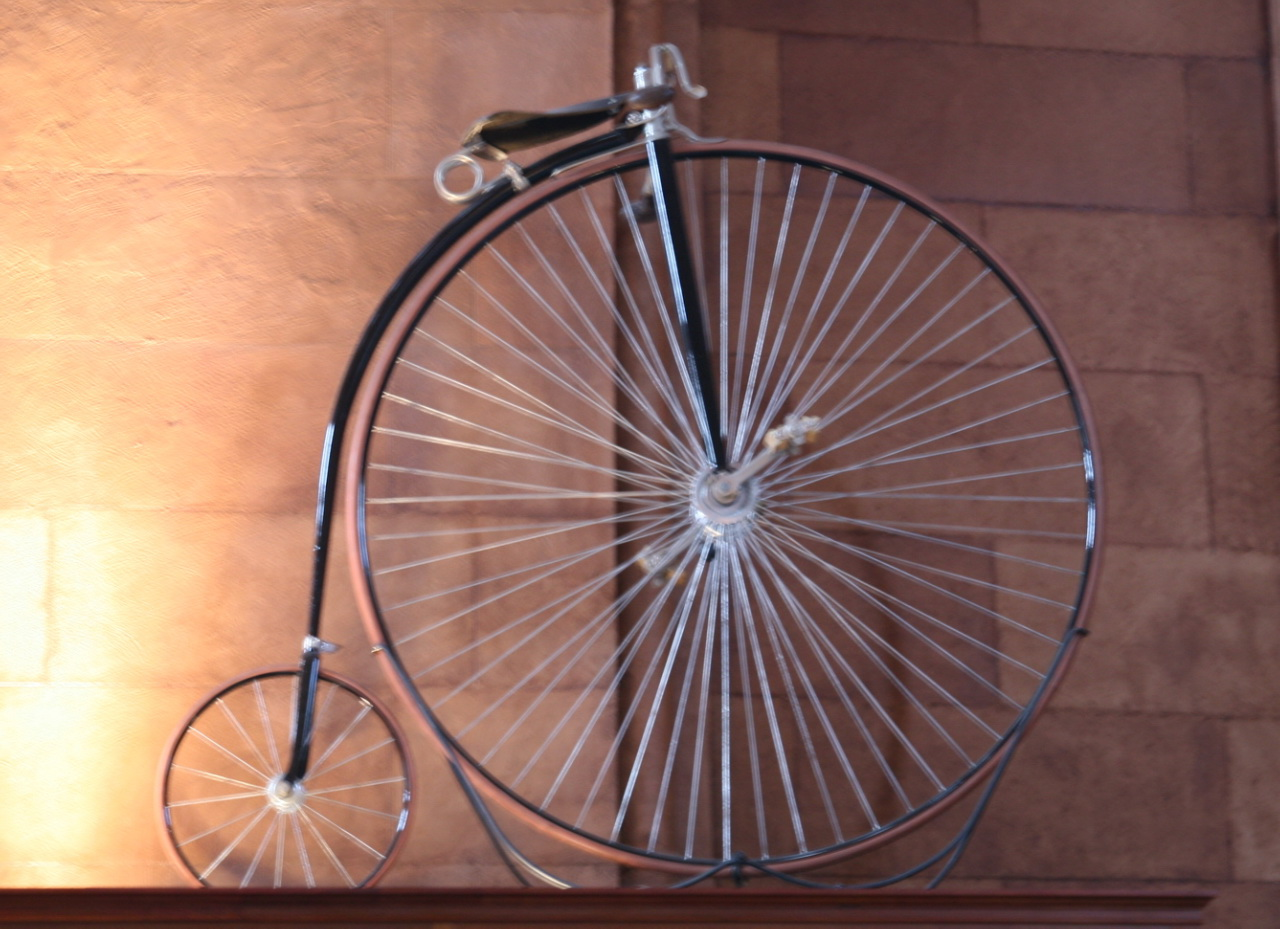 Fast and lightweight, the high-wheel bicycle required skill to ride and sometimes caused the rider to fall, but offered a novel form of transport. (National Museum of Natural History – Behring Center)